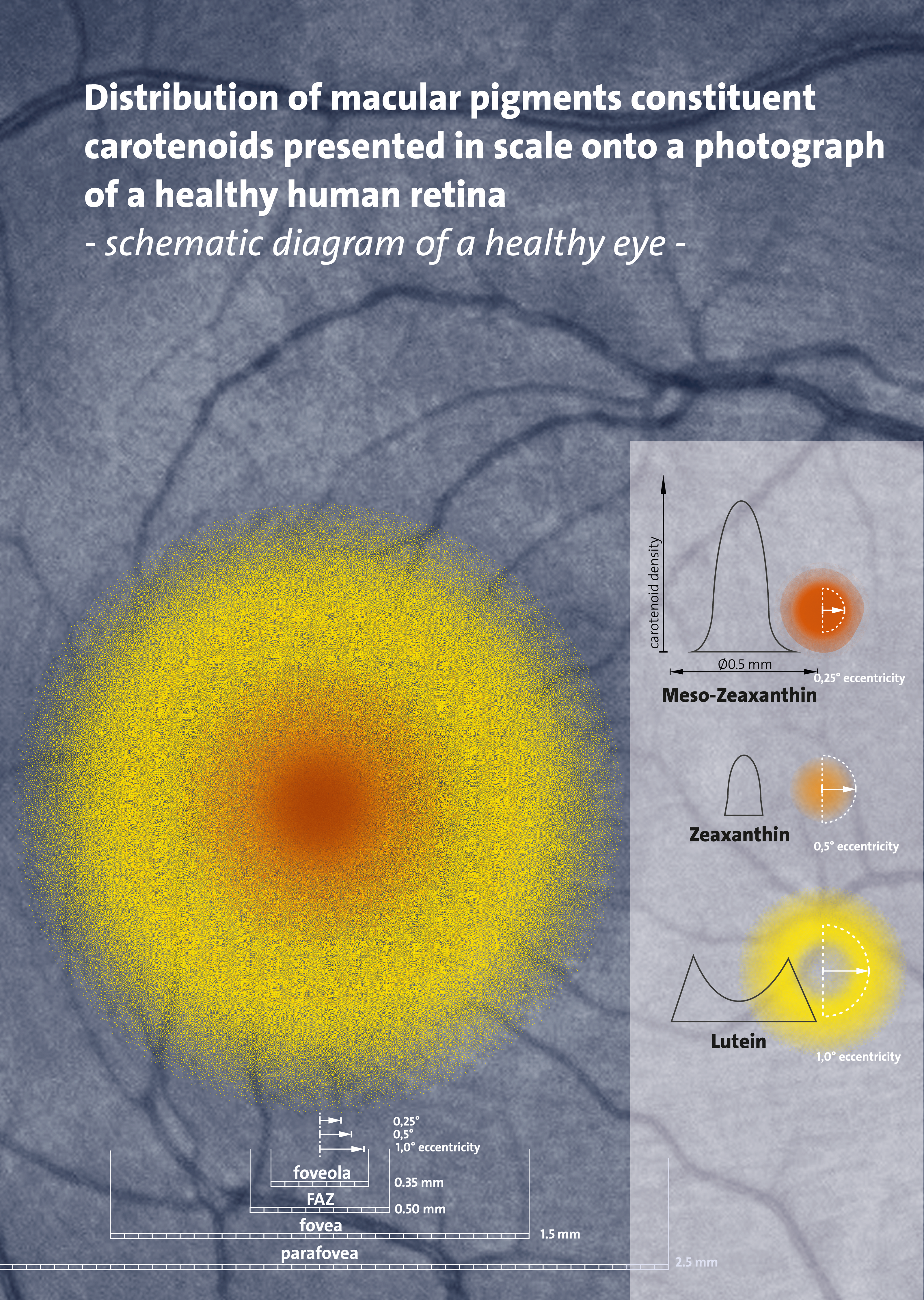 Distribution of macular pigments constituent carotenoids presented in scale onto a photograph of a healthy human retina. This figure presents the distribution of macular pigments constituent carotenoids meso-zeaxanthin, zeaxanthin and lutein on a healthy human retina. The sources used to generate this figure, which guided on the localization of the carotenoids, and are summarized as follows: Published studies: Bone RA, Landrum JT, Dixon Z, Chen Y, Lerena CM. Lutein and zeaxanthin in the eyes, serum and diet of human subjects. Experimental Eye Research. 2000;71:239-245. Nolan JM, Akkali MC, Loughman J, Howard AN, Beatty S. Macular carotenoid supplementation in subjects with atypical spatial profiles of macular pigment. Exp Eye Res. 2012;101:9-15. Sabour-Pickett S, Beatty S, Connolly E, et al. Supplementation with three different macular carotenoid formulations in patients with early age-related macular degeneration. Retina. 2014;34:1757-1766. Akuffo KO, Nolan JM, Howard AN, et al. Sustained supplementation and monitored response with differing carotenoid formulations in early age-related macular degeneration. Eye (Lond). 2015;29:902-912. Online Sources: Britton G, Liaaen-Jensen S, Pfander H. Interpretation of Stereo Ocular Angiography: Retinal and Choroidal Anatomy. Springer Science and Business Media. 2009; 301. Yanoff M. Ocular Pathology. Elsevier Health Sciences. 2009; 393. Small RG. The Clinical Handbook of Ophthalmology. CRC Press. 1994; 134. Peyman GA, Meffert SA, Chou F, Conway MD. Vitreoretinal Surgical Techniques. CRC Press. 2000; 6